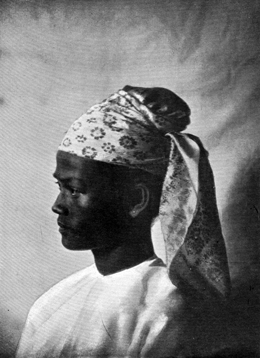 Portrait of a Burmese male, early 1900s.